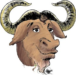 Color image of a GNU head.